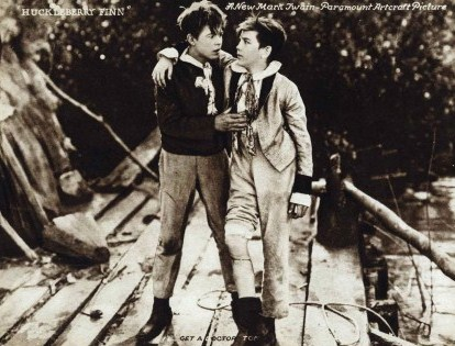 Lewis Sargent as Tom Sawyer and Gordon Griffith as Huckleberry Finn in Huckleberry Finn - publicity still (original image cropped : see source)